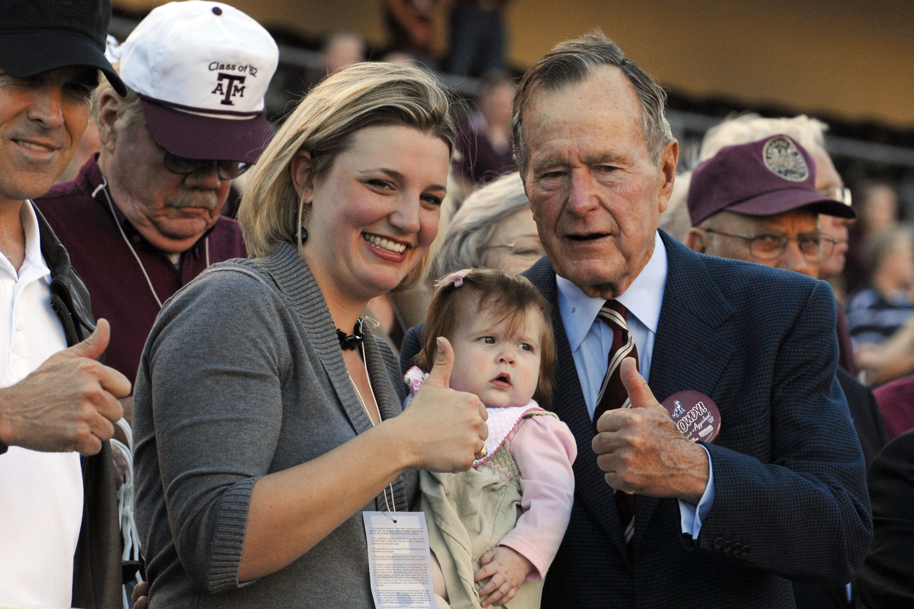 President George H. W. Bush and Texas Gov. Rick Perry give the gig 'em sign with Teal Moran during the Texas A&M Aggies vs. University of Kansas Jayhawks football game in College Station, Texas, Oct. 27, 2007. Moran's husband, U.S. Marine Corps 1st Lt. Dan Moran, was wounded while serving in Iraq. DoD photo by Cherie A. Thurlby. (Released) (Released to Public)